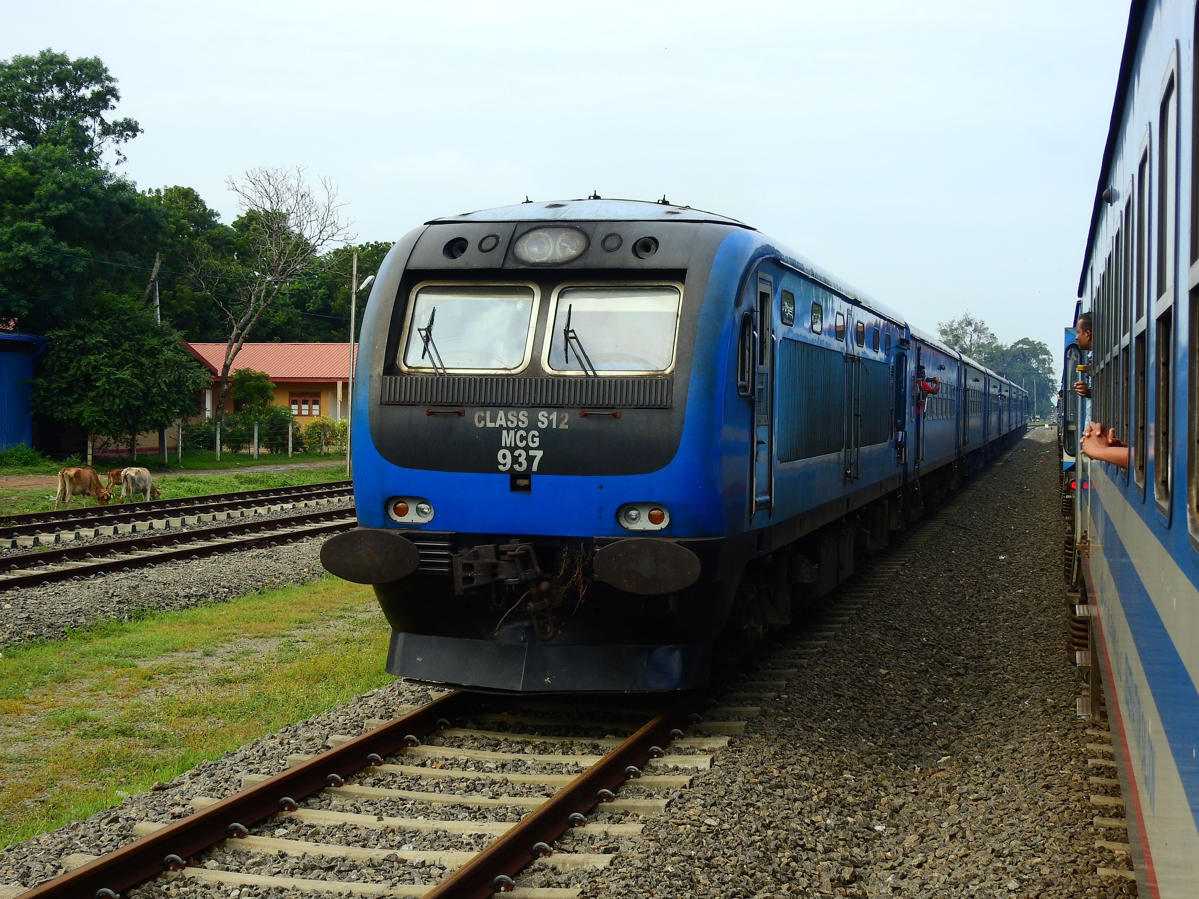 Northern Railway Line, Sri Lanka.